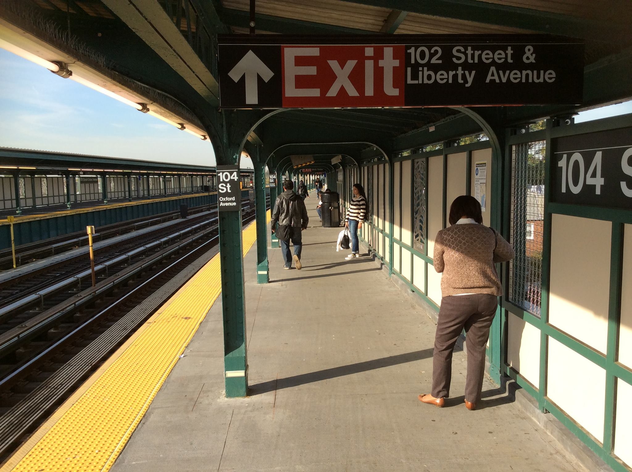 Brooklyn bound platform at 104 St on the Fulton St Line